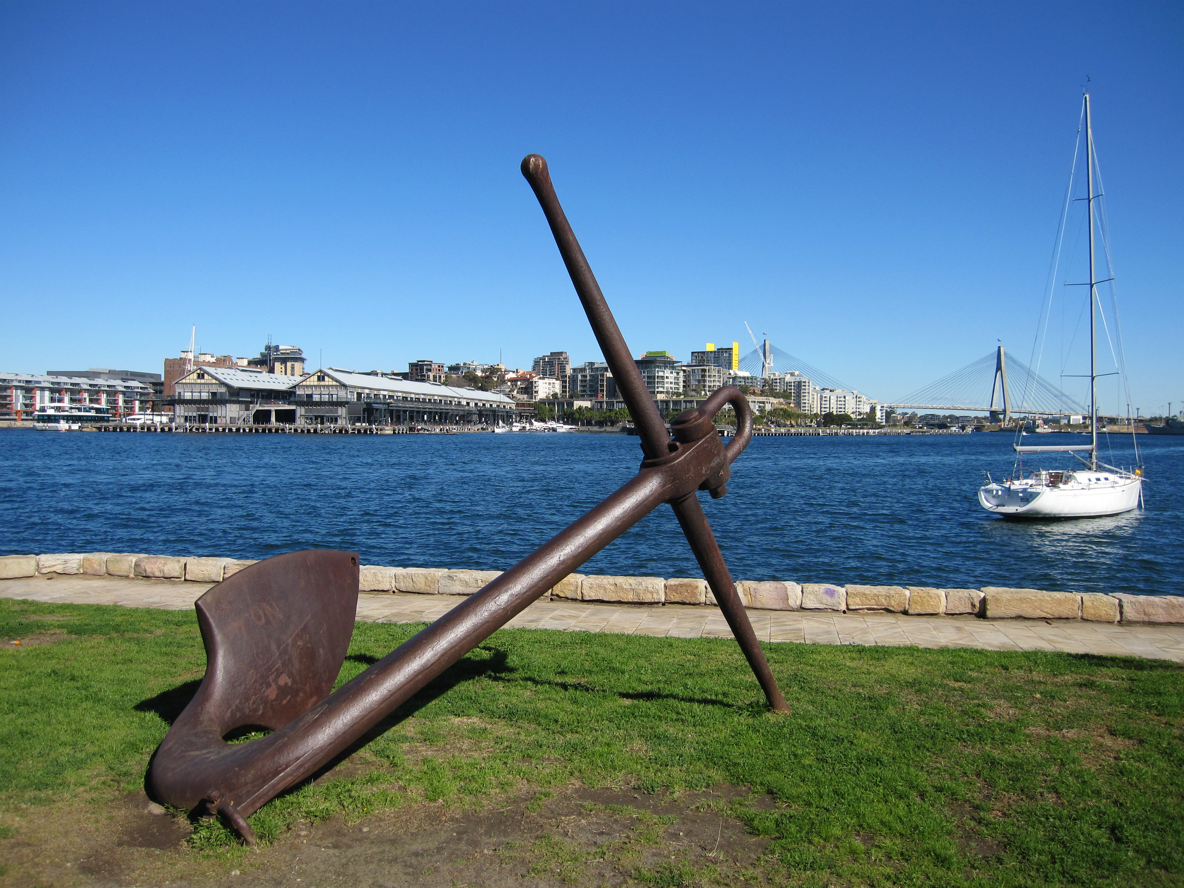 Anchor monument, Peacock Point, Balmain East.